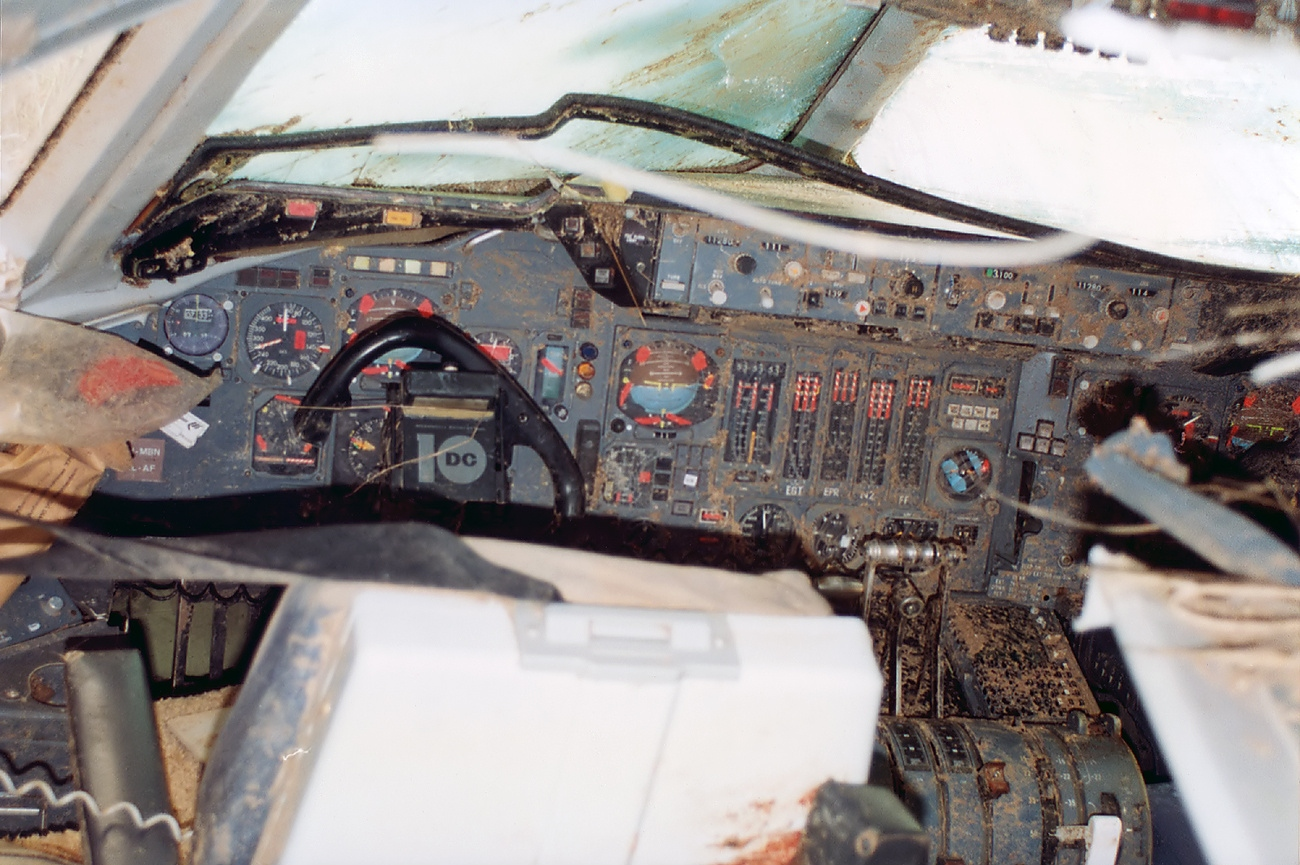 Crash at 07.33 UTC , 08.33 Local Time as shown on the control panel.